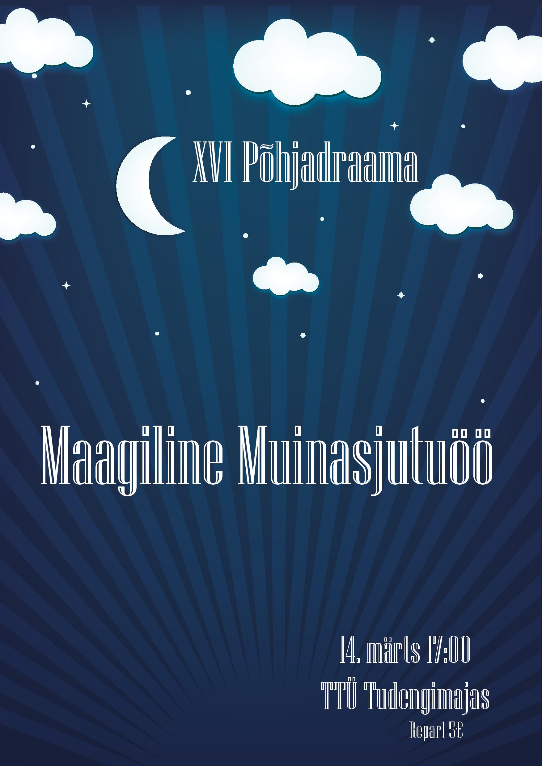 XVI Põhjadraama plakat